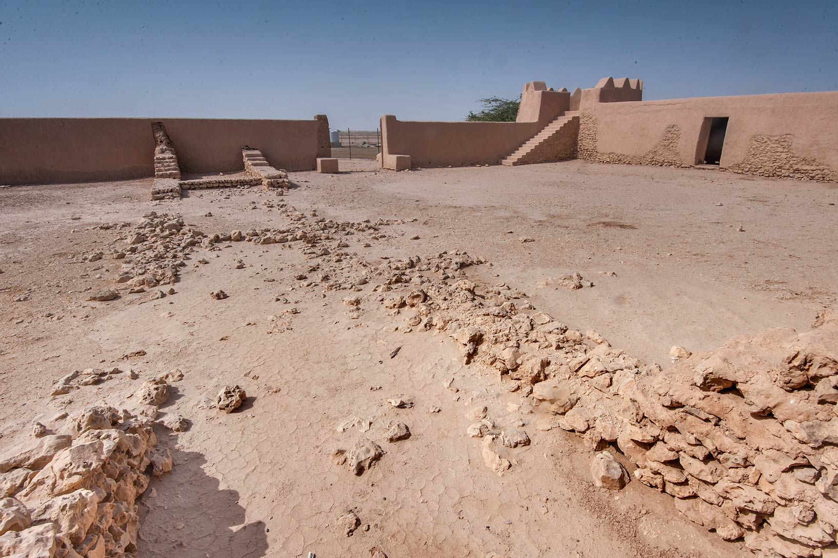 Courtyard of Ar Rakiyat Fort in northern Qatar.